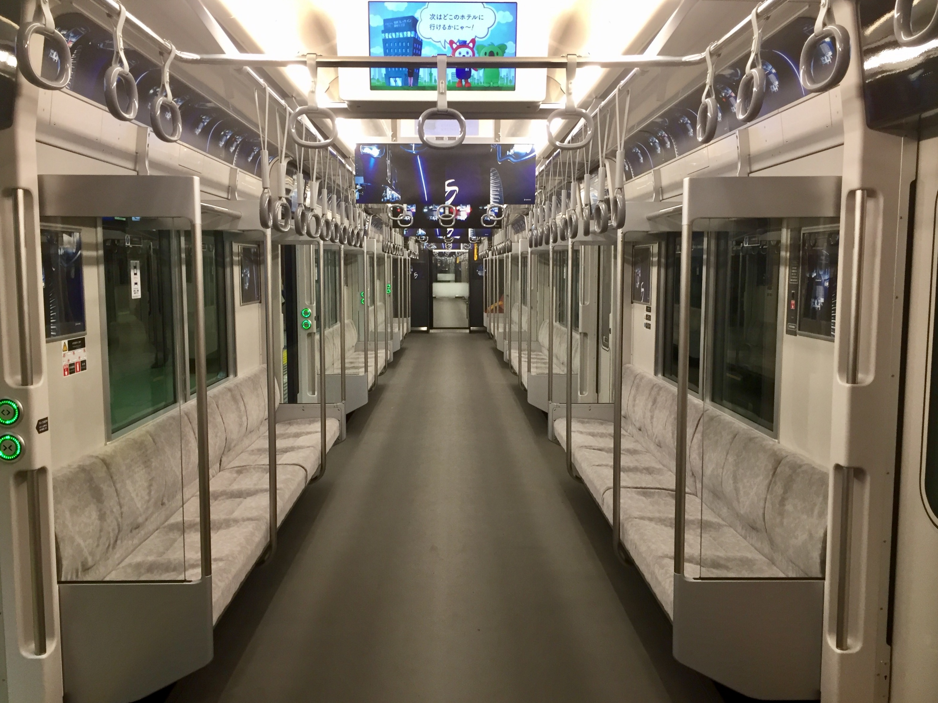 The interior of Sotetsu 20000 series EMU set 20101 with the LED lighting adjusted to a warmer hue for the late evening period